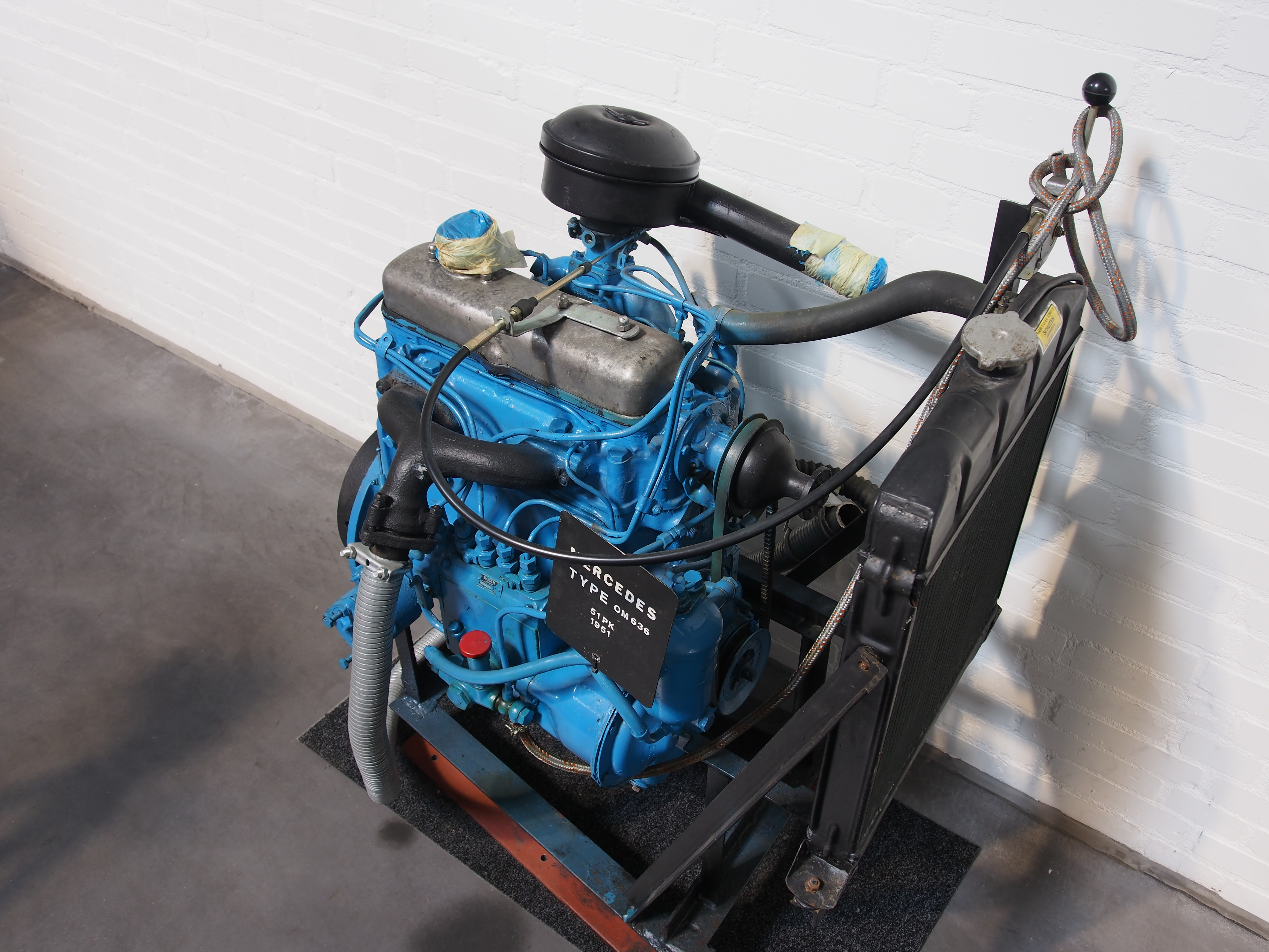 Photographed at the Hyacintenrit 2013 stop in the Jack den Hartogh oldtimer truck mueseum.